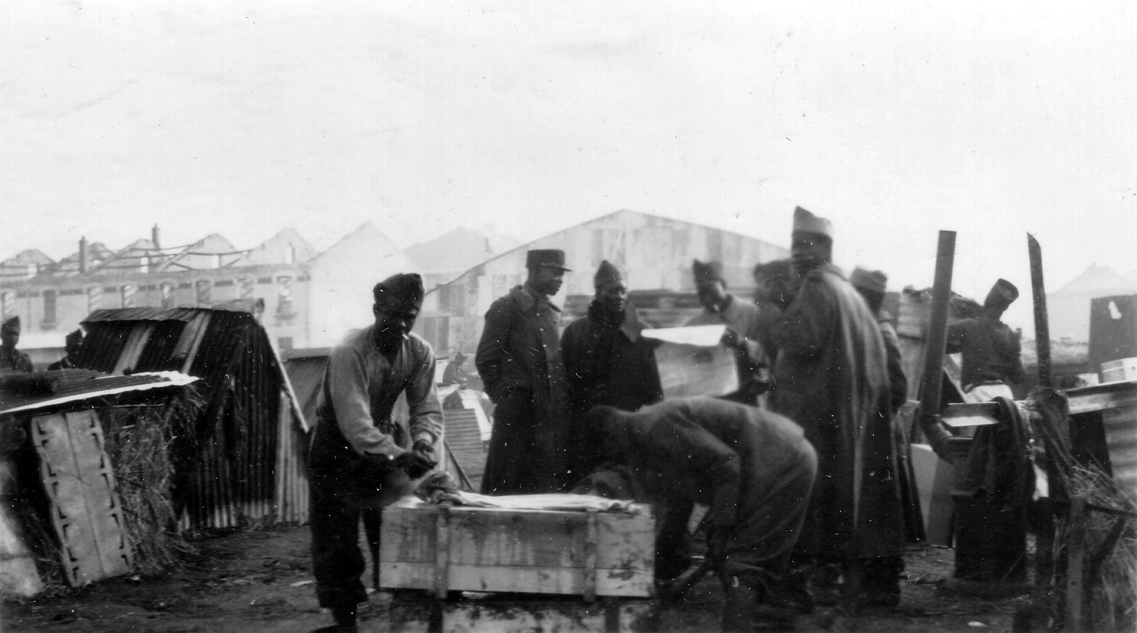 Photographie allemande - (col. Normandie Mémoire) Des prisonniers noirs (troupes coloniales françaises) dans le Frontstalag 155, Dijon-Longvic. Longvic à 5 km au sud de Dijon. 155.htm Base aérienne 102 quartier Ferber Repérage : Le bâtiment sans toit est l'école technique (bâtiment 17) détruit par bombardement le 10 mai 1940, avec le hangar n°9 à droite. Exactement en face du Bâtiment N°80 visible sur la photo ci-dessous : et Ils se sont confectionnés des abris de fortune avec des tôles ondulées, remarquez à droite un tuyau de poêle. Voir ici : Voir les photos dans ce Frontstalag 155 : NB l'appellation Base de Longvic est la plus couramment usitée alors que la quasi-totalité de l'emprise est sur la commune d'Ouges.